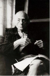 Photo of Louis Faurer in Hartsdale, NY. Copyright by Thomas Lafferty, 1971.